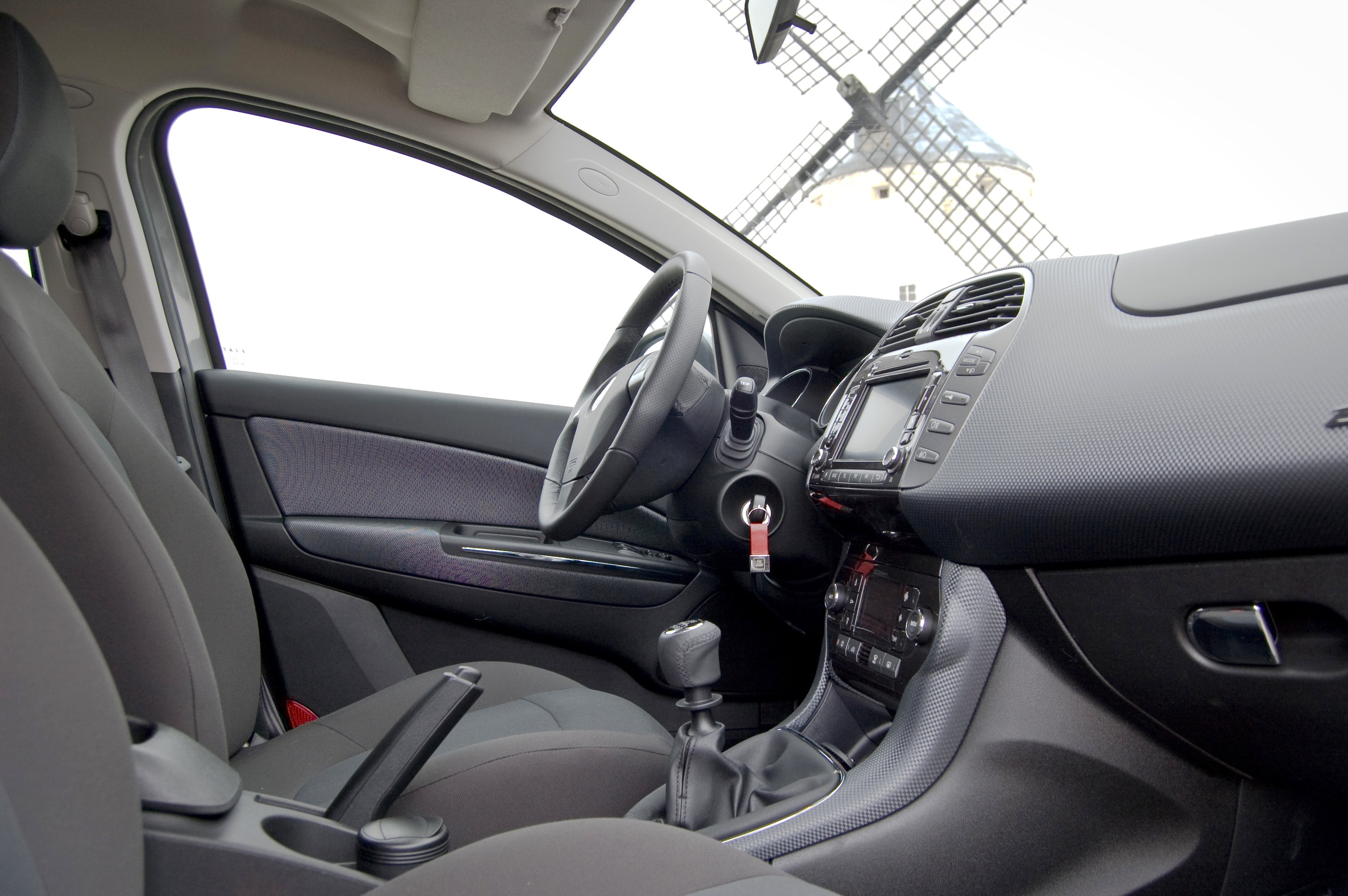 Fiat Bravo